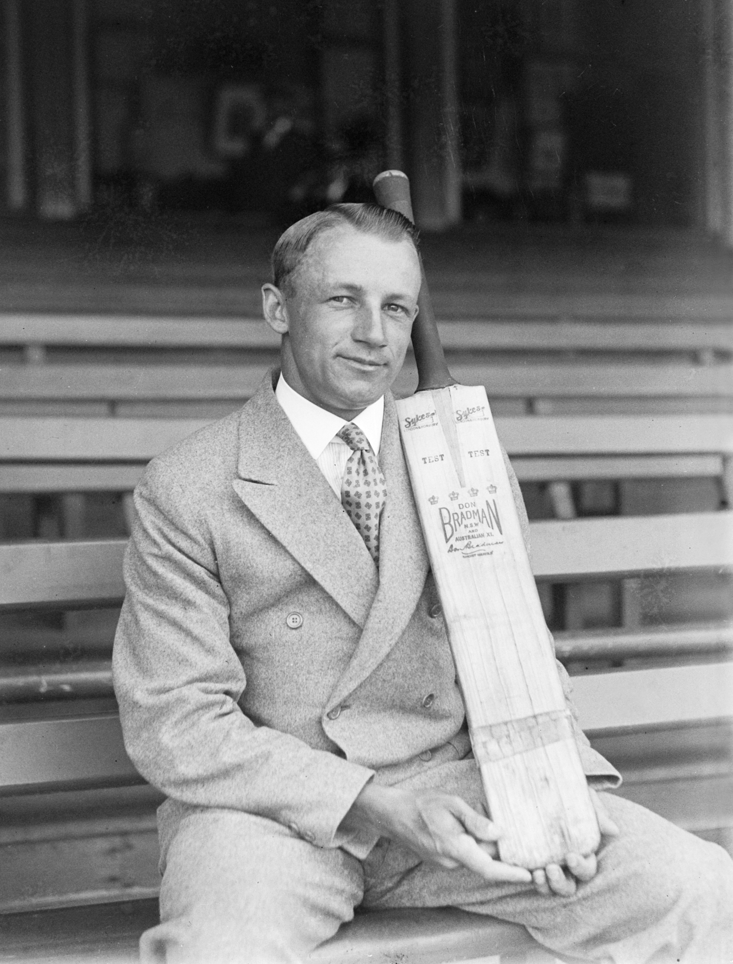 Don Bradman with his "Don Bradman" brand Sykes bat, ca. 1932, Sam Hood, glass negative, State Library of New South Wales Home and Away - 2389